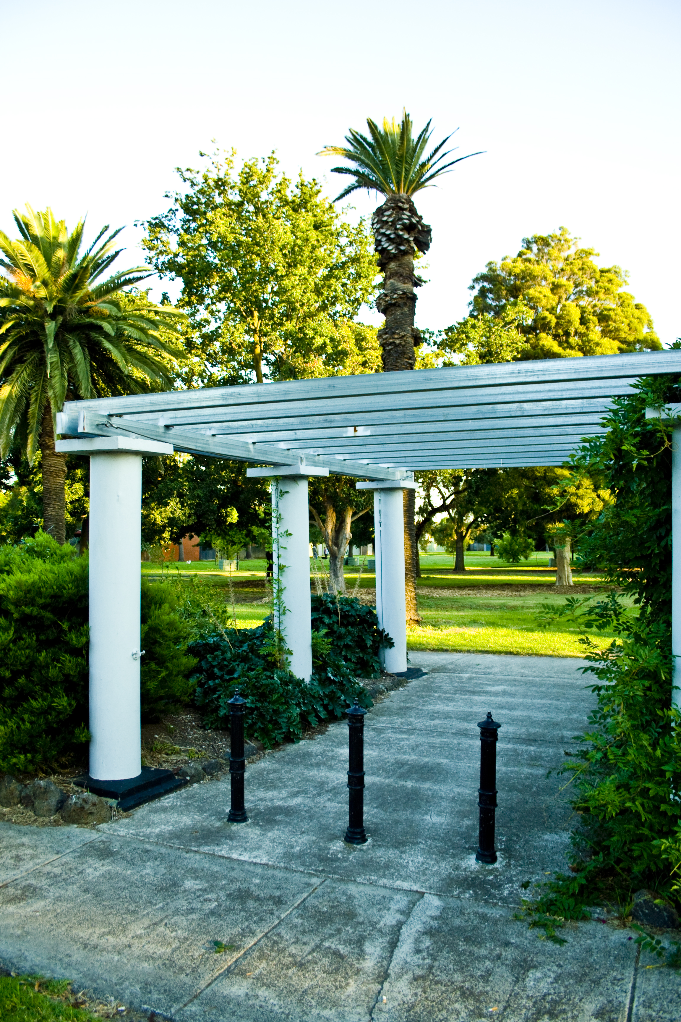 Johnson Park, Northcote, Victoria, Australia. The Pergola at the entrance to the Park on its northern boundary on Bastings Street.